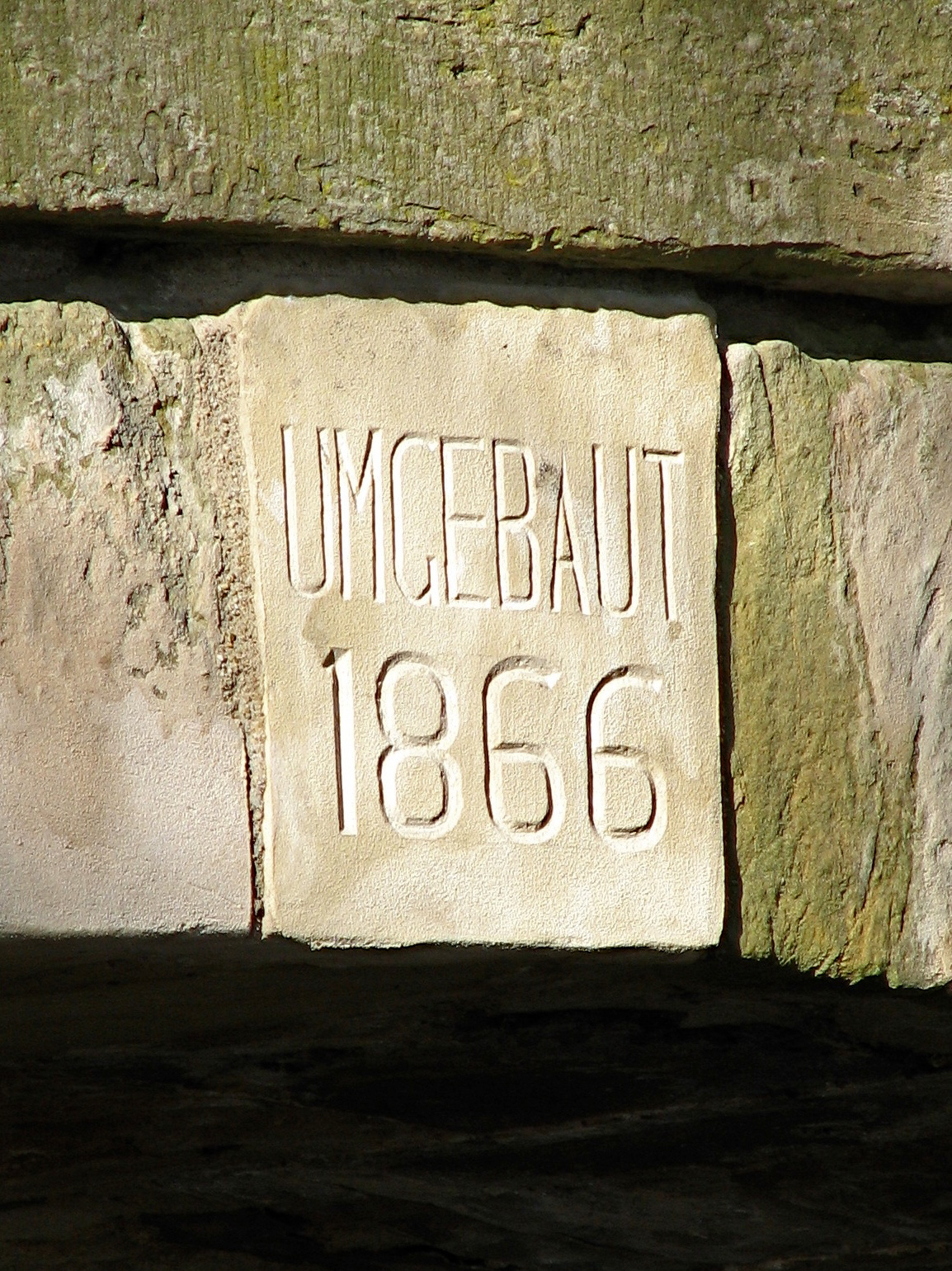 Franzosenbrücke Salzgitter: Schlussstein des mittleren Bogens mit Jahresangabe des letzten Umbaus